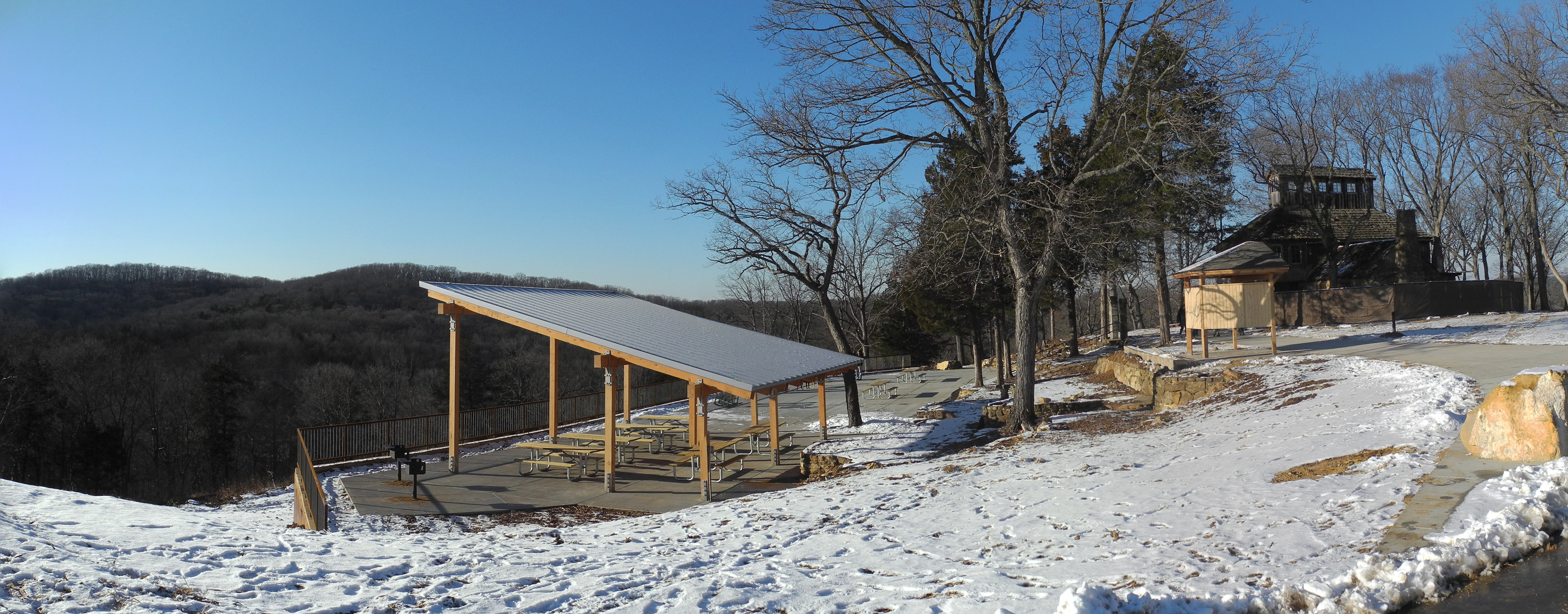 Picnic pavilion overlook and the Robinson house in Don Robinson State Park in Missouri